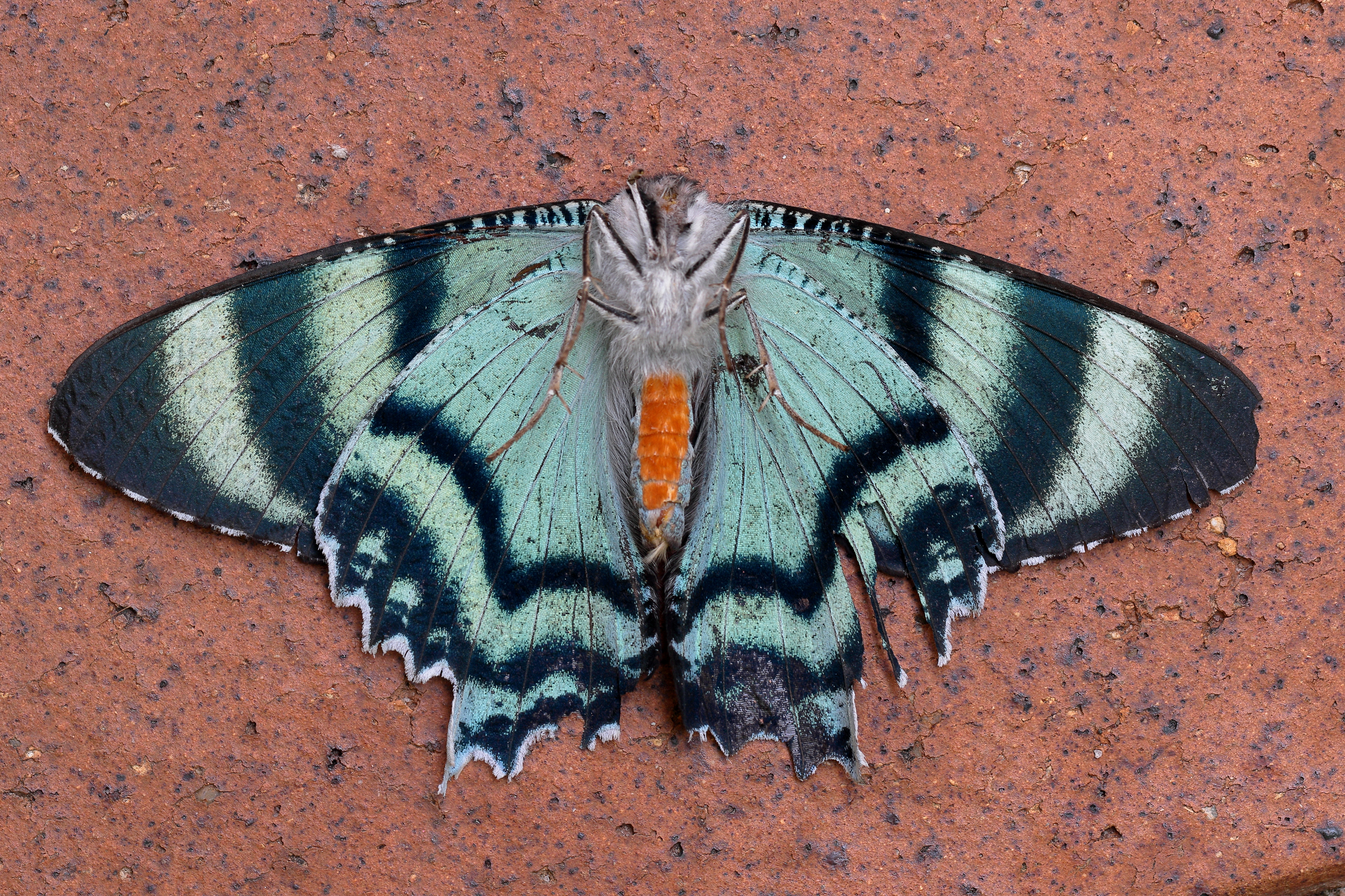 Ventral view of a North Queensland day moth (Alcides metaurus) taken in Cairns